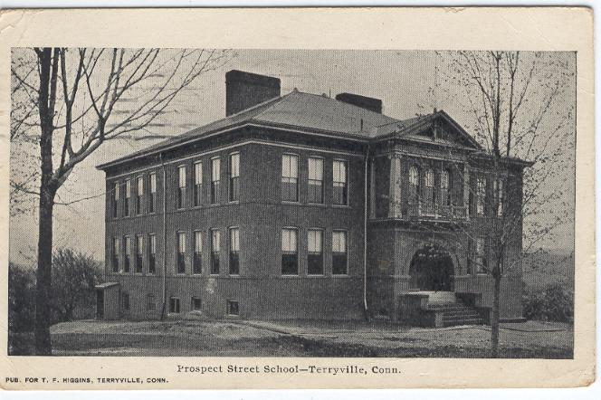 Postcard: Prospect Street School, Terryville, Connecticut, 1906 postmark Description: Store Web page states: "The card was postally used in 1906." Caption on picture side of card: "Prospect Street School—Terryville, Conn." At lower left corner of picture side: PUB. FOR T. F. HIGGINS, TERRYVILLE, CONN."